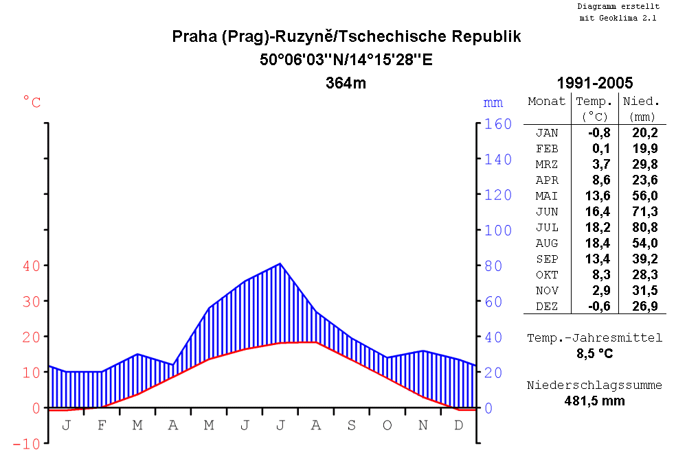 climate chart of Prague-Ruzyně, Czech Republic, for the period of time from 1991 to 2005, in the format by Walter and Lieth, metric, °Celsius and millimeters, chart made with Geoklima 2.1, label in German